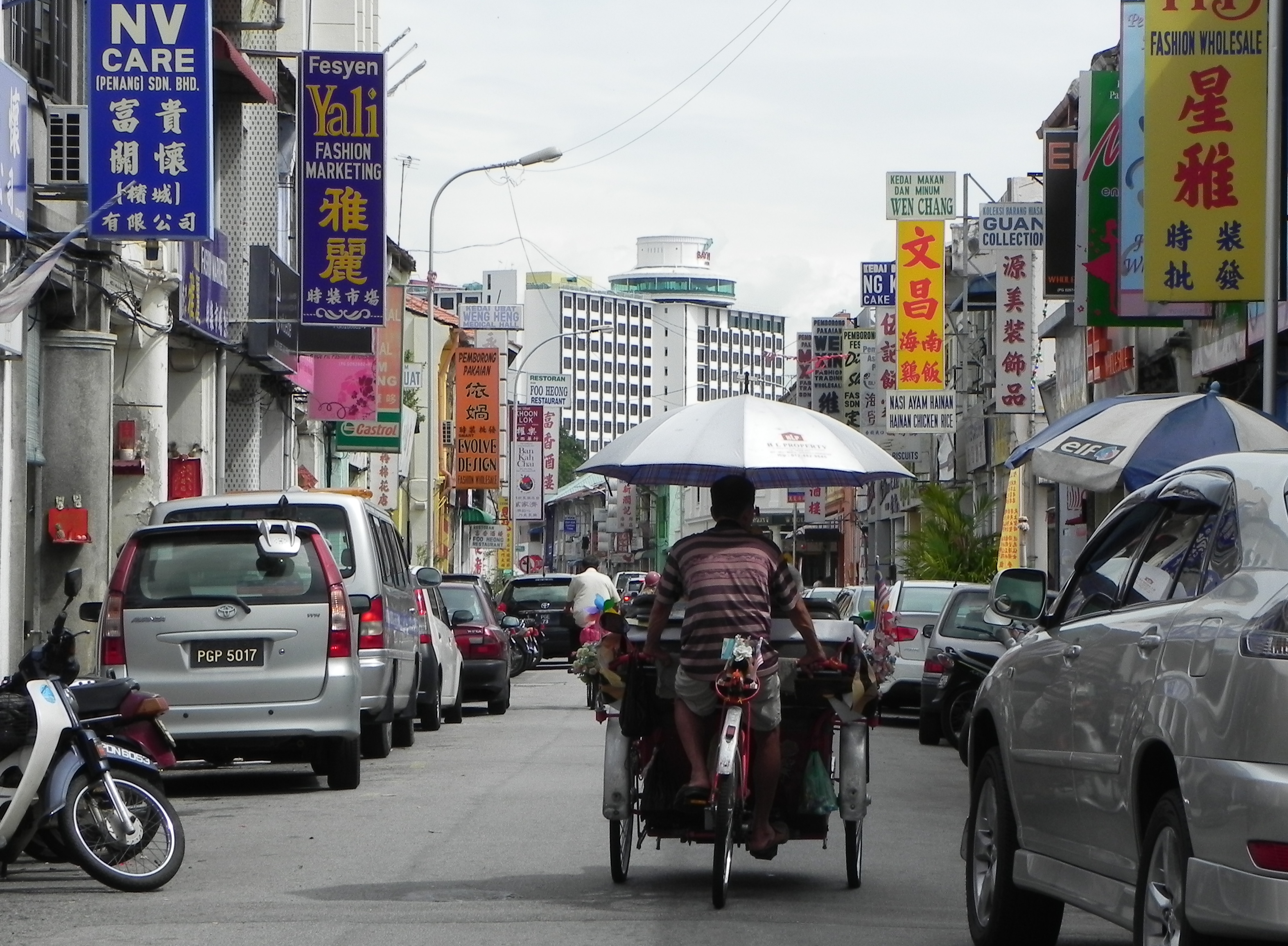 Cintra Street in George Town, Penang